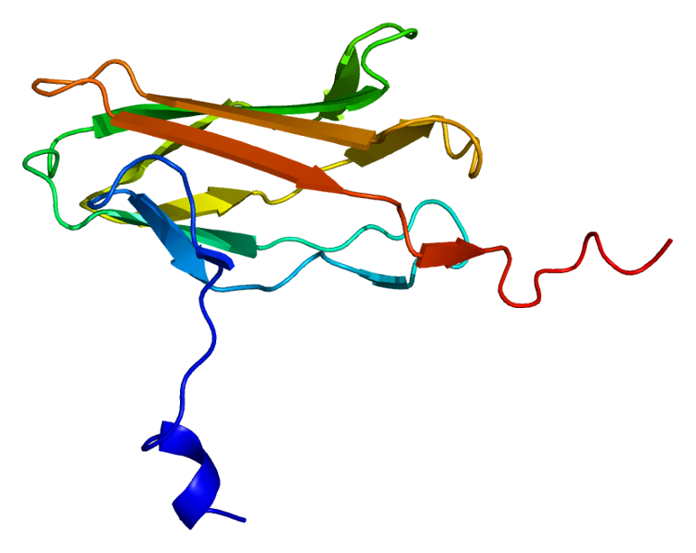 Structure of the RUNX2 protein. Based on PyMOL rendering of PDB 1cmo.